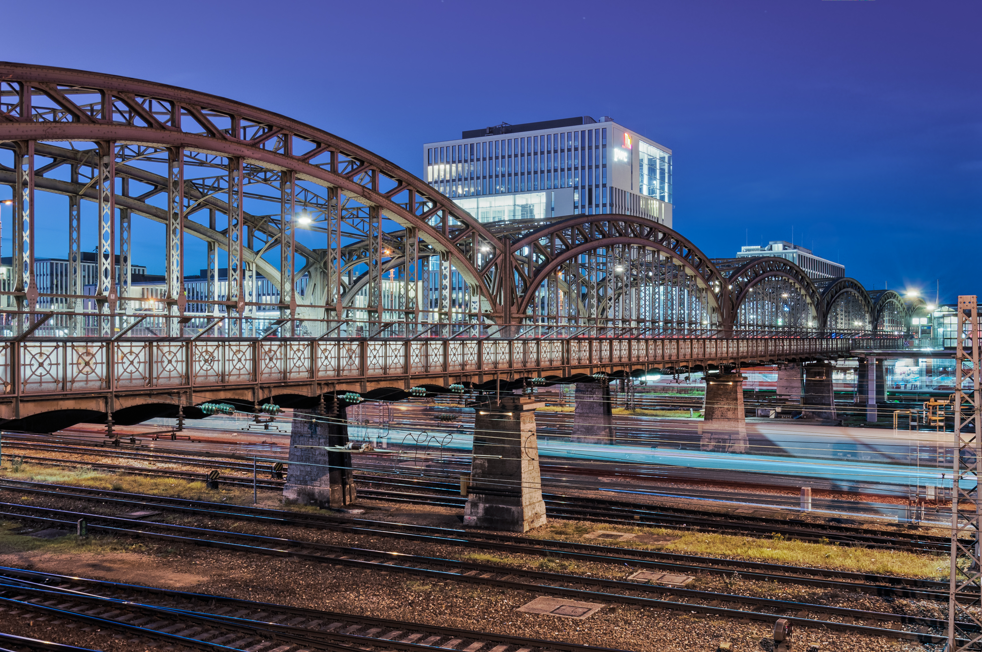 Hackerbrücke (Hacker bridge), Munich, Germany.